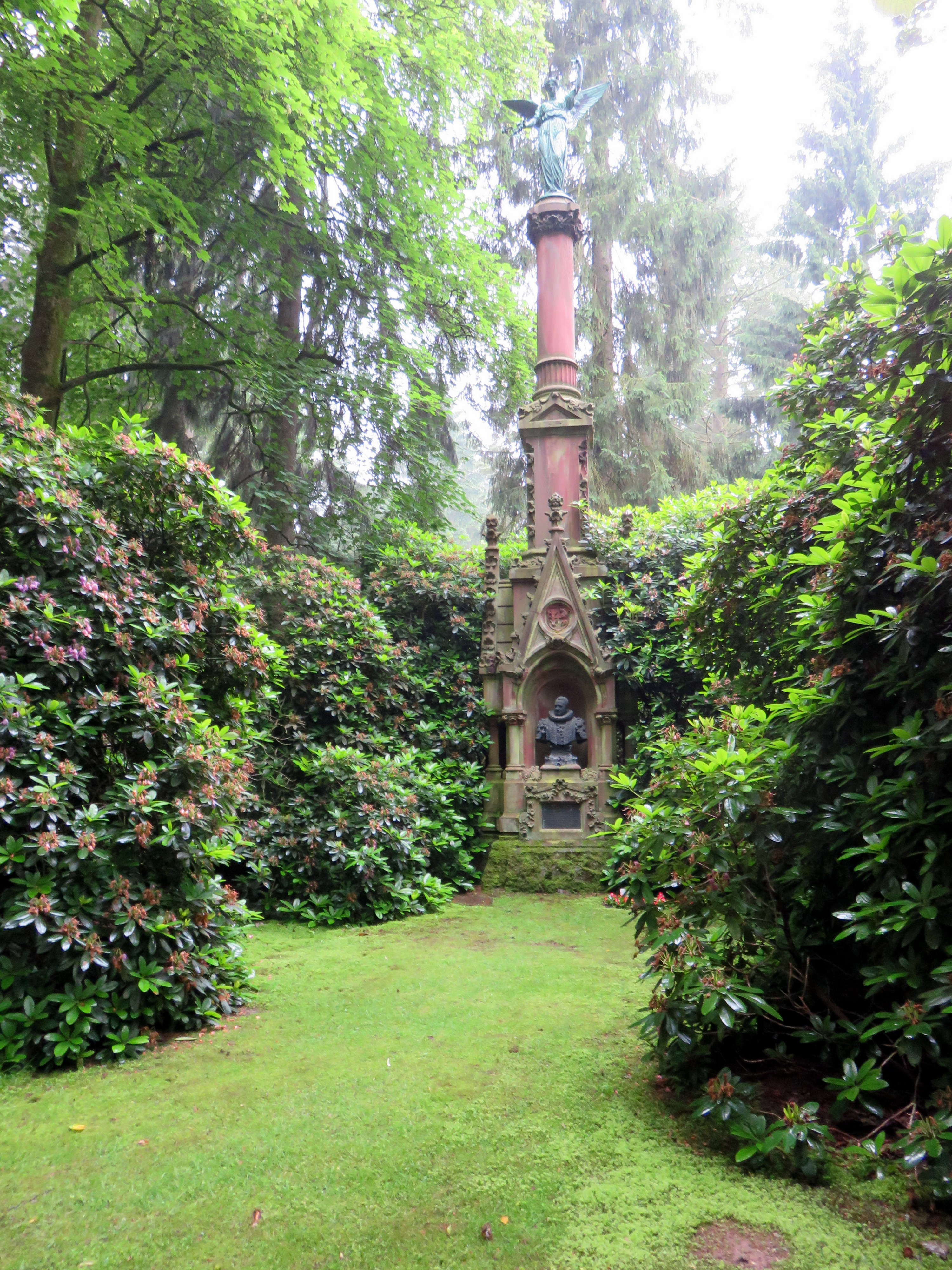 Gravestone of 1899 for Hamburg merchant and senator Johann Stahmer, cemetery Friedhof Ohlsdorf.